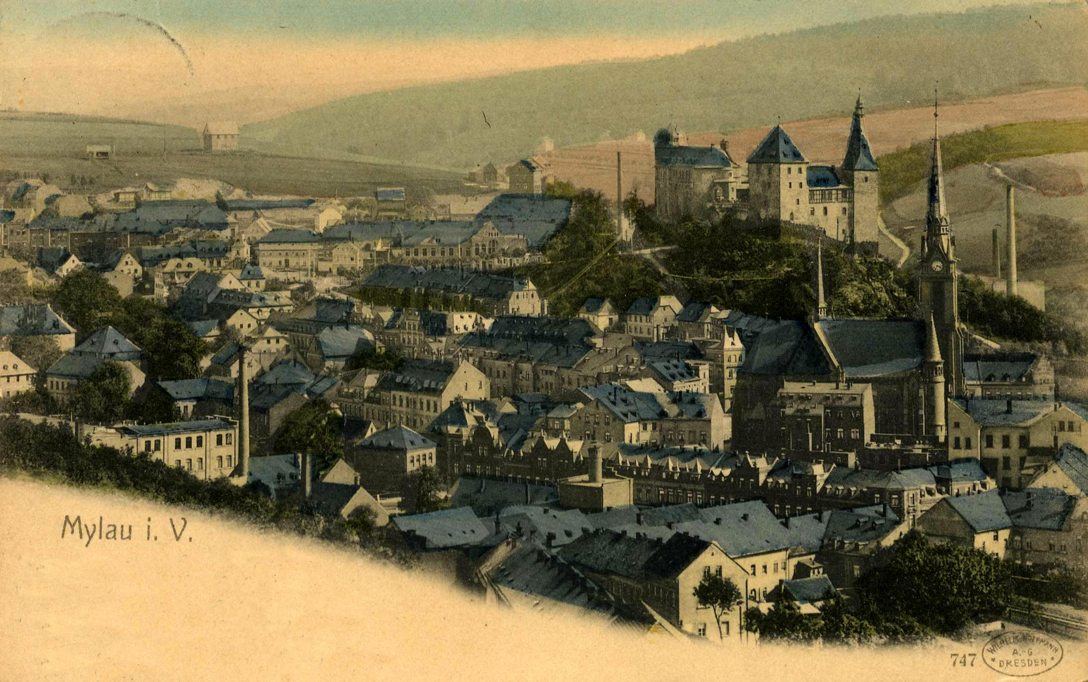 View on Mylau.